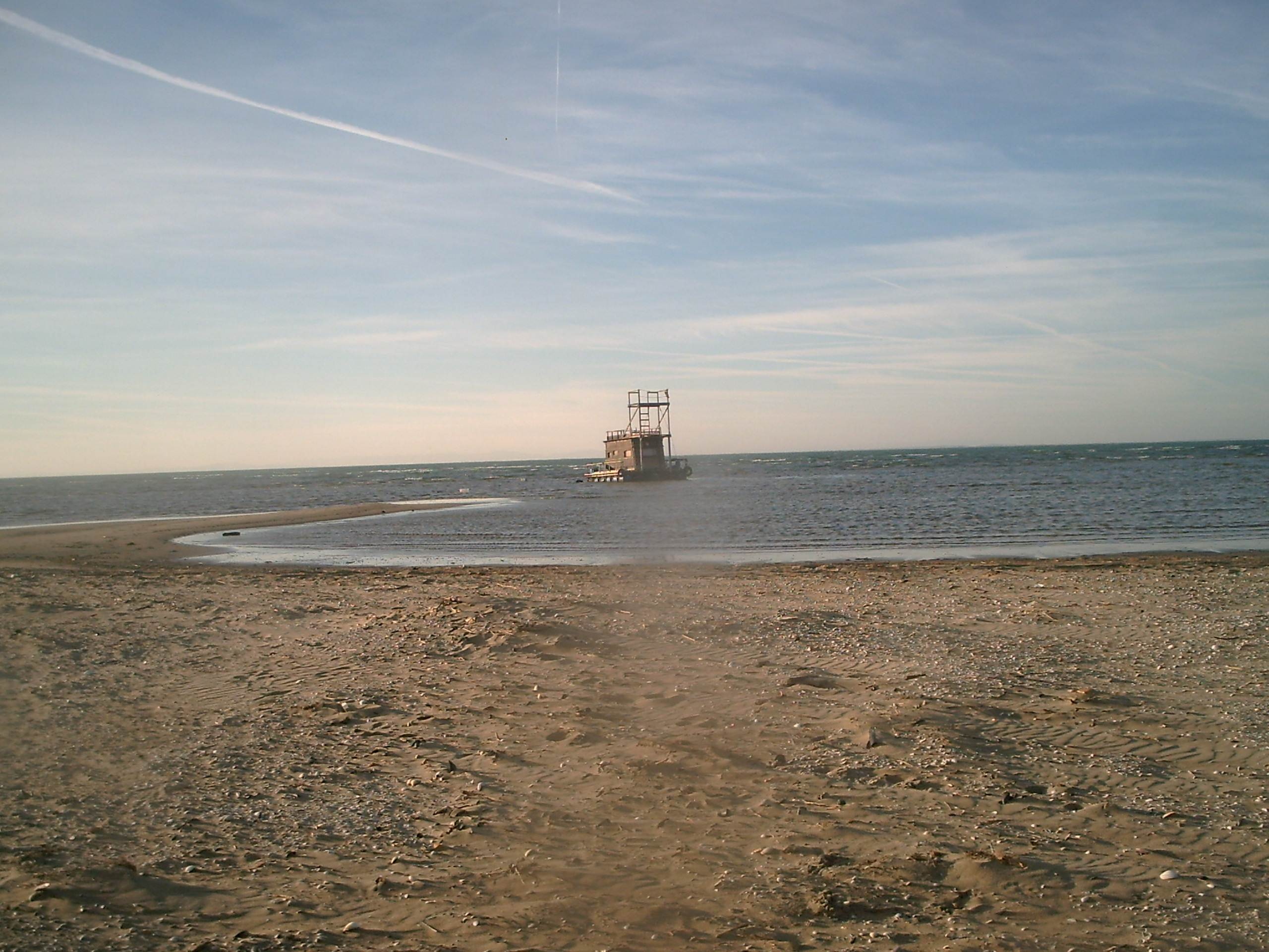 Beauduc